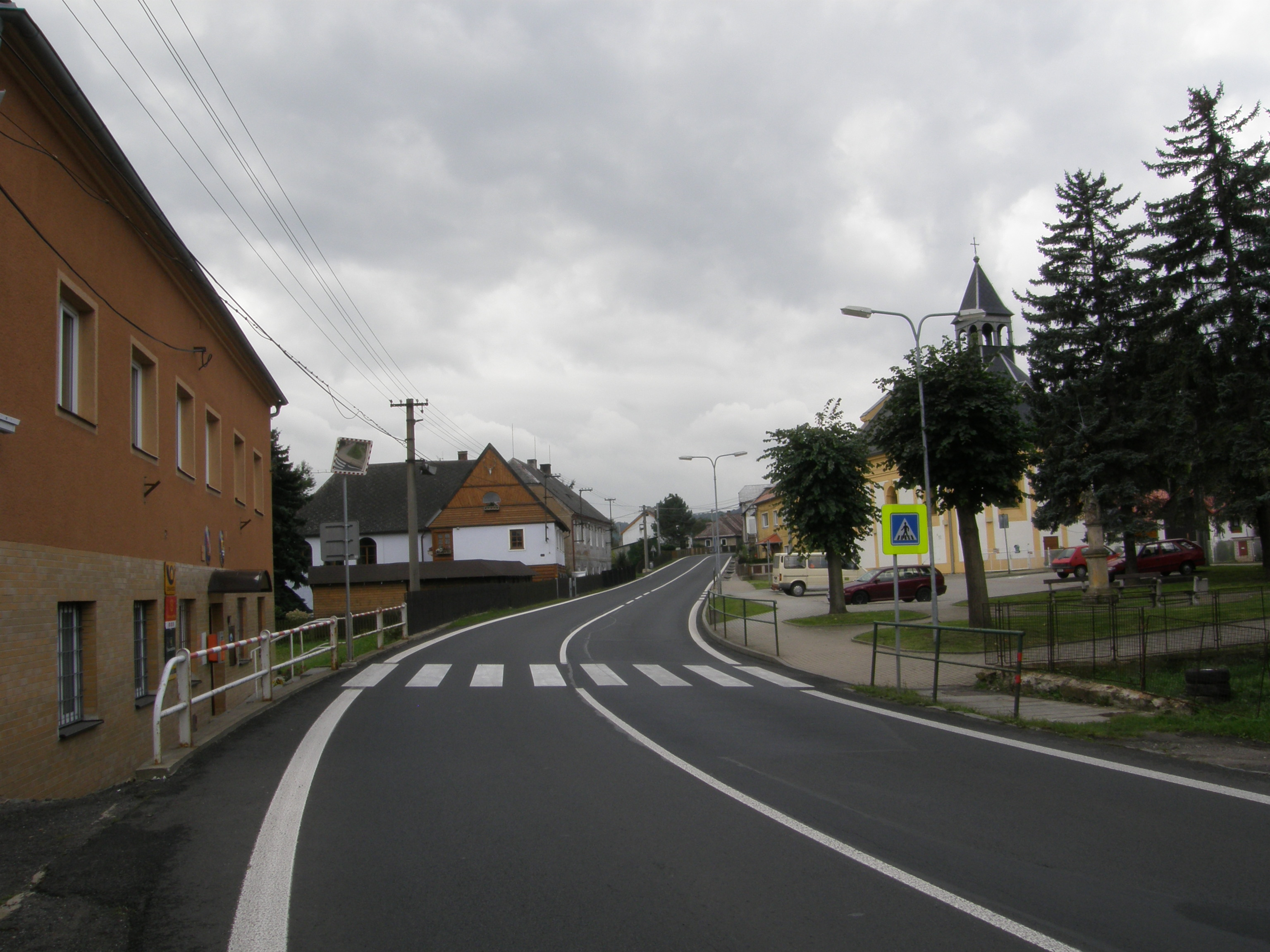 Stráž nad Ohří - main road in the center, church and municipal office